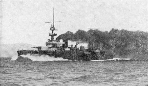 French battleship Justice